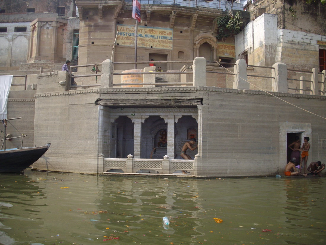 This unique Hanuman temple on Lalita Ghat remains submerged for almost 4 months during the monsoon season when the river ganges gets flooded and its level rises.